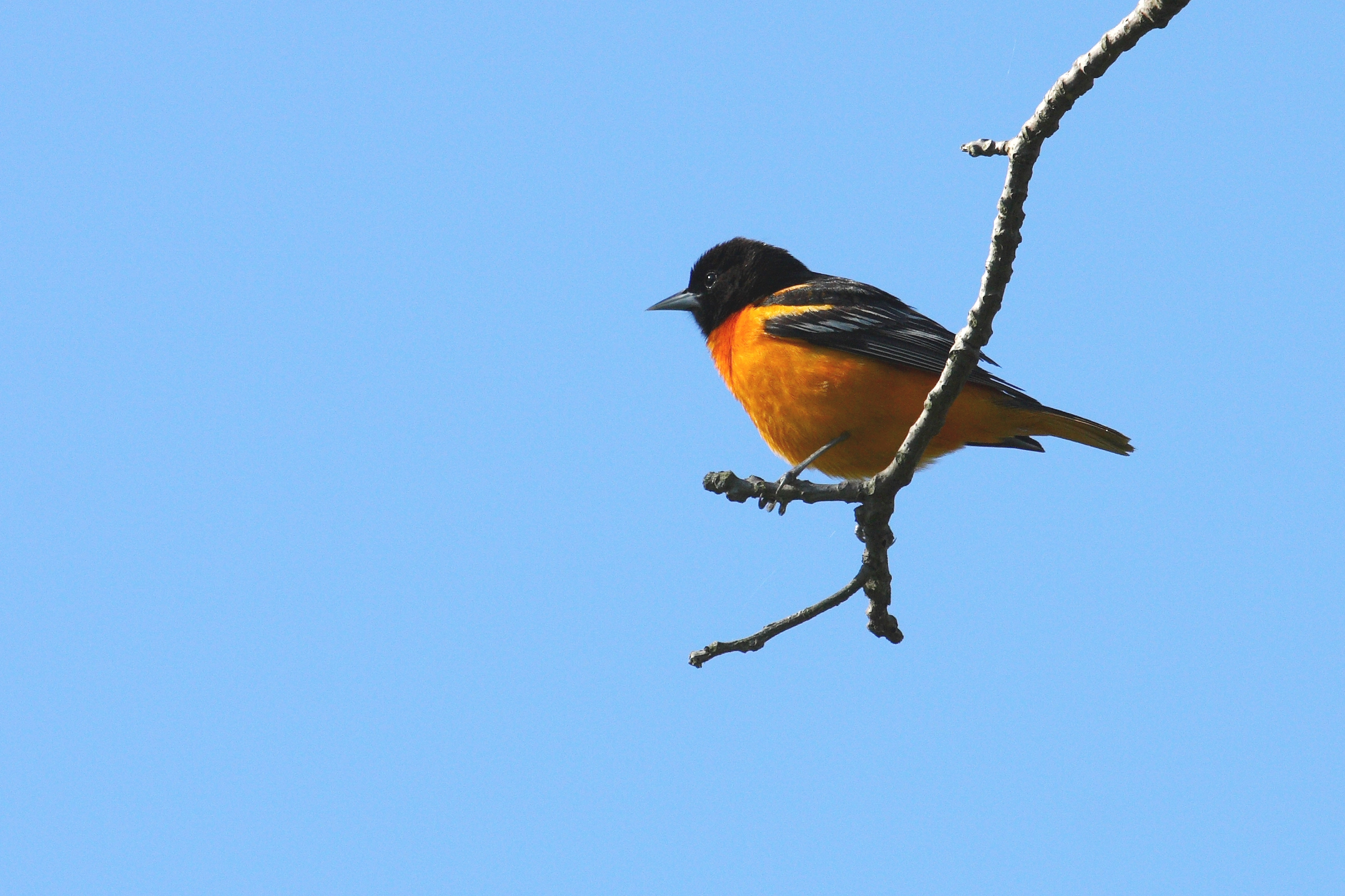 Baltimore Oriole, Point Pelee National Park, Ontario, Canada